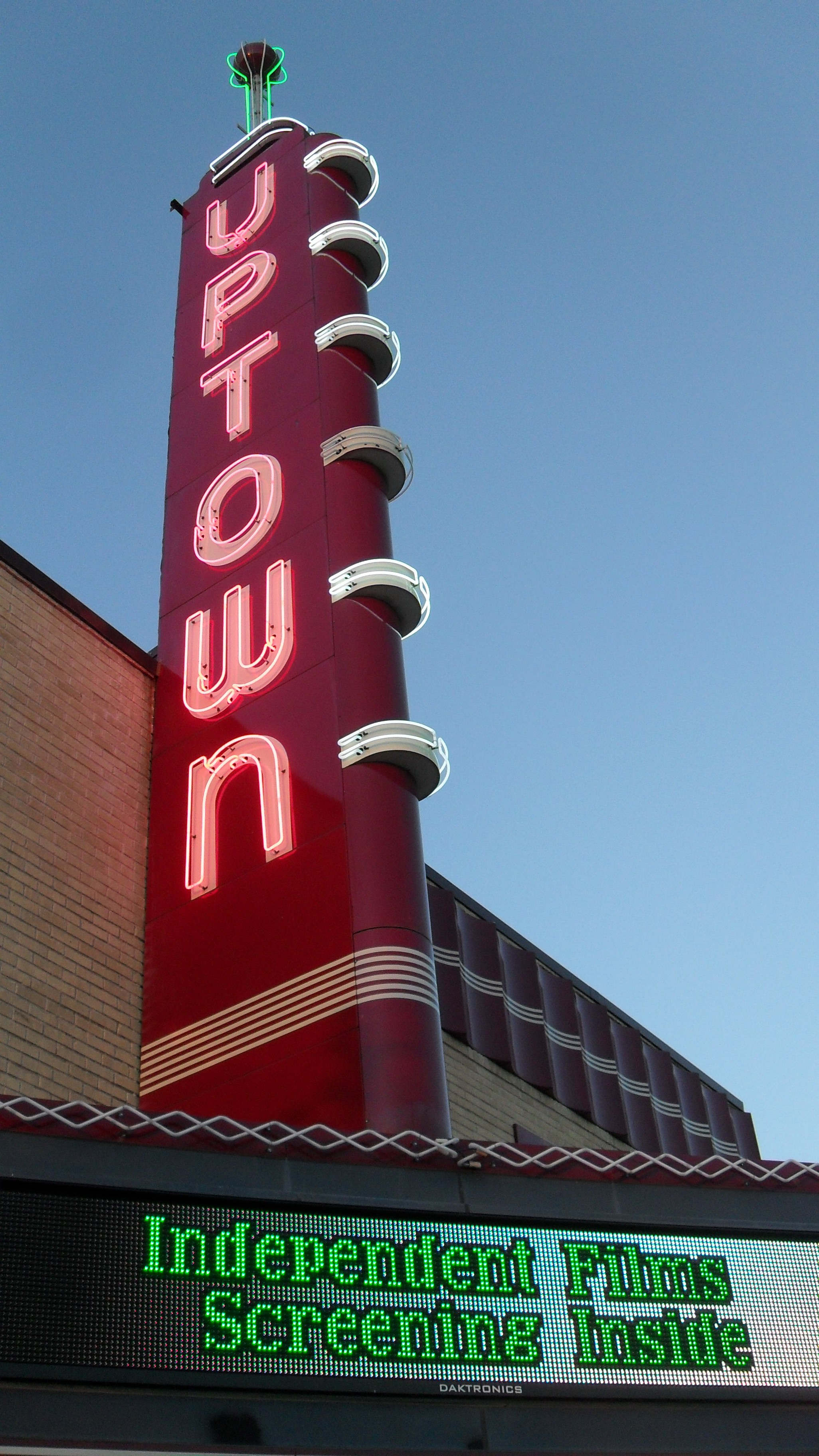 The illuminated sign of the Uptown Theatre in Downtown Grand Prairie at dusk.